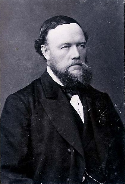 Photograph of Erasmus Benedigt Kjærschow Zahl, tradesman/merchant at Kjerringøy in Nordland, Norway.